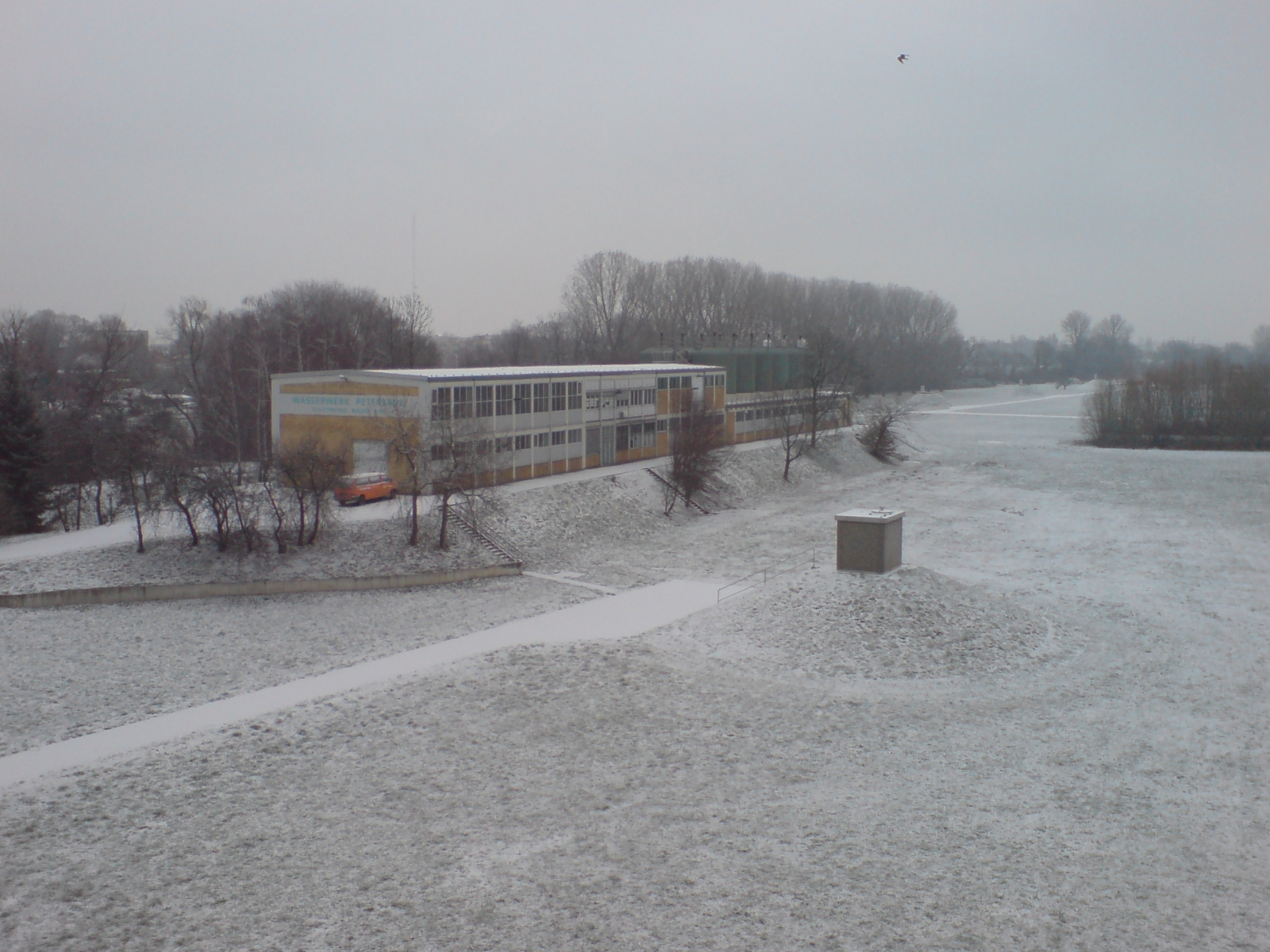 A river bank filtration plant that provides a good part of the drinking water supply of Mainz, Germany. Located on the eastern bank of the Rhine, south of the Kaiserbrücke. The little building on the mound is one of the extraction wells.